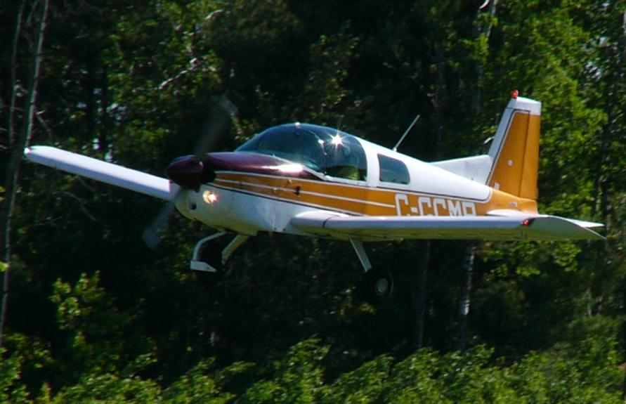 A Grumman American AA-1B Trainer lands at Lachute, Quebec May 2004